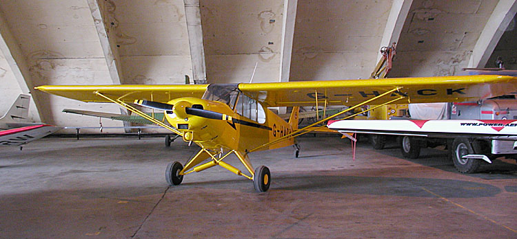 Piper PA-18 Super Cub 150 (G-HACK) at the Great Vintage Fly-In Weekend, Kemble, England, May 10th 2003. Taken by Adrian Pingstone and released to the public domain.